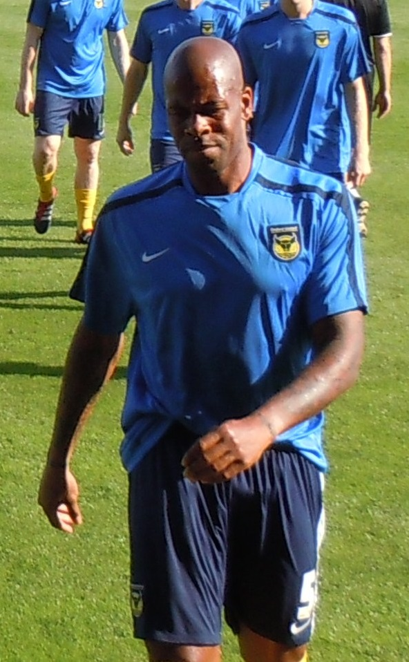 Michael Duberry. Image cropped from original at flickr.